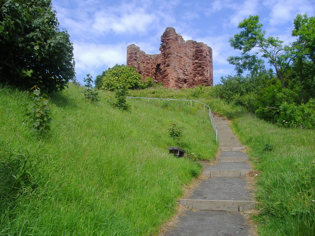 Macduff's Castle Perched on top of the famous Wemyss Caves, only the south tower remains of this sixteenth century castle, although the first fortification on this site was constructed by the Macduff earls of Fife in the eleventh century.